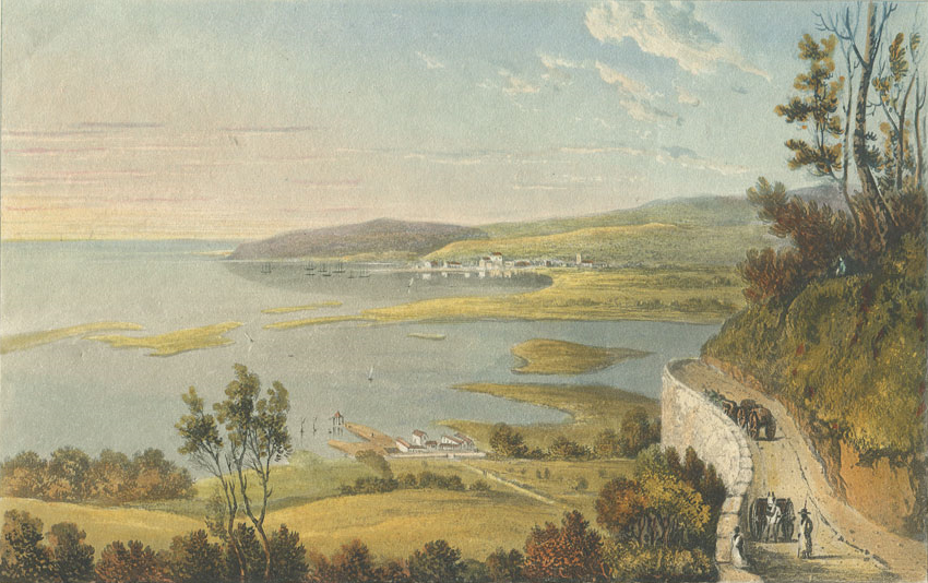 A scan of a hand coloured aquatint of Montego Bay, Jamaica viewed from Reading Hill. Published by Hurst, Robinson & Co, London, England, 1824. Also used in A Picturesque Tour of the island of Jamaica, from drawings made in the years 1820 and 1821, James Hakewill, 1852; A 2009 reprint of the book is available; ISBN 1-120-12598-7. The 1825 edition is available from Google Books. The text accompanying this plate in the 1825 book reads: "THIS view of Montego Bay is taken from Reading Hill, over which the King's Road to Westmoreland passes. Immediately below the eye are the buildings on Mr Scott's wharf, rented by Mr Home, between which and the town of Montego Bay the sea is dotted with the Islands which form a part of the Bogue estate. They are entirely unproductive, although the largest contains fifty acres, and has a spring of fresh water. Behind is the town, seated on a bay, which for beauty of form may vie with the most remarkable."